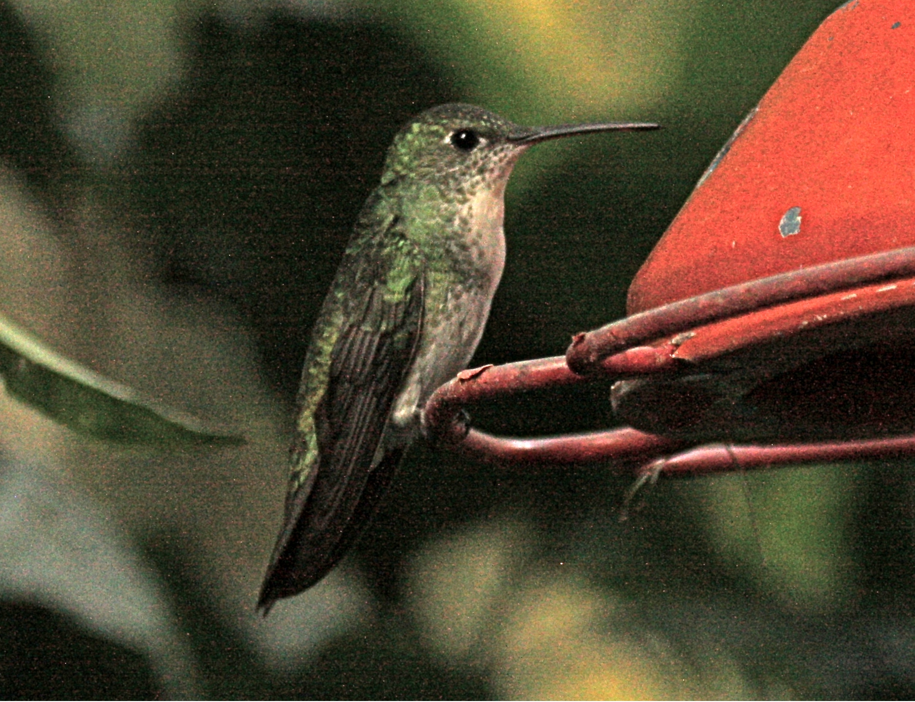 Pueblo Hotel - near Machu Picchu, Peru